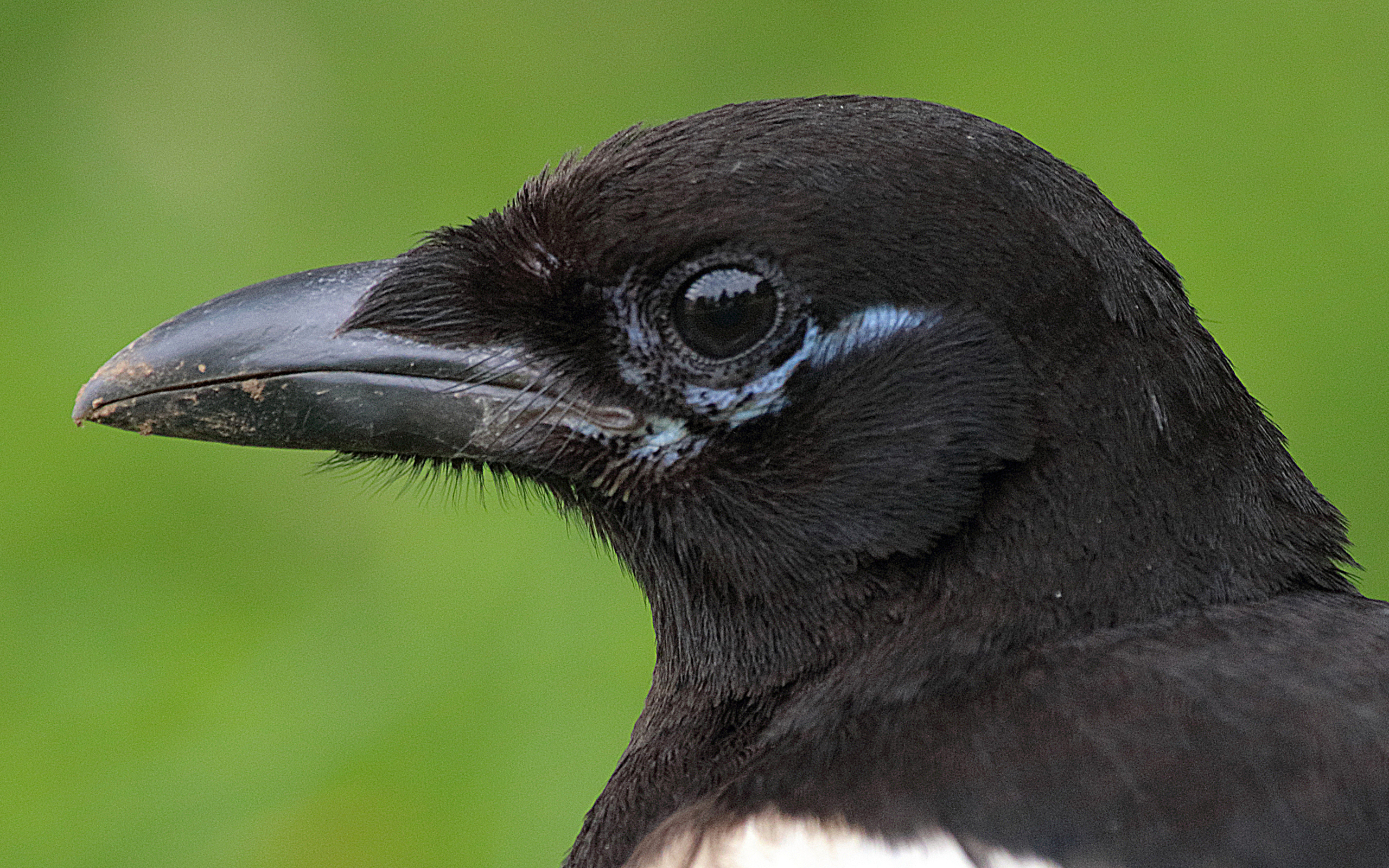 Pica pica (small, probably juvenile individual) in a small park in Heidelberg city.